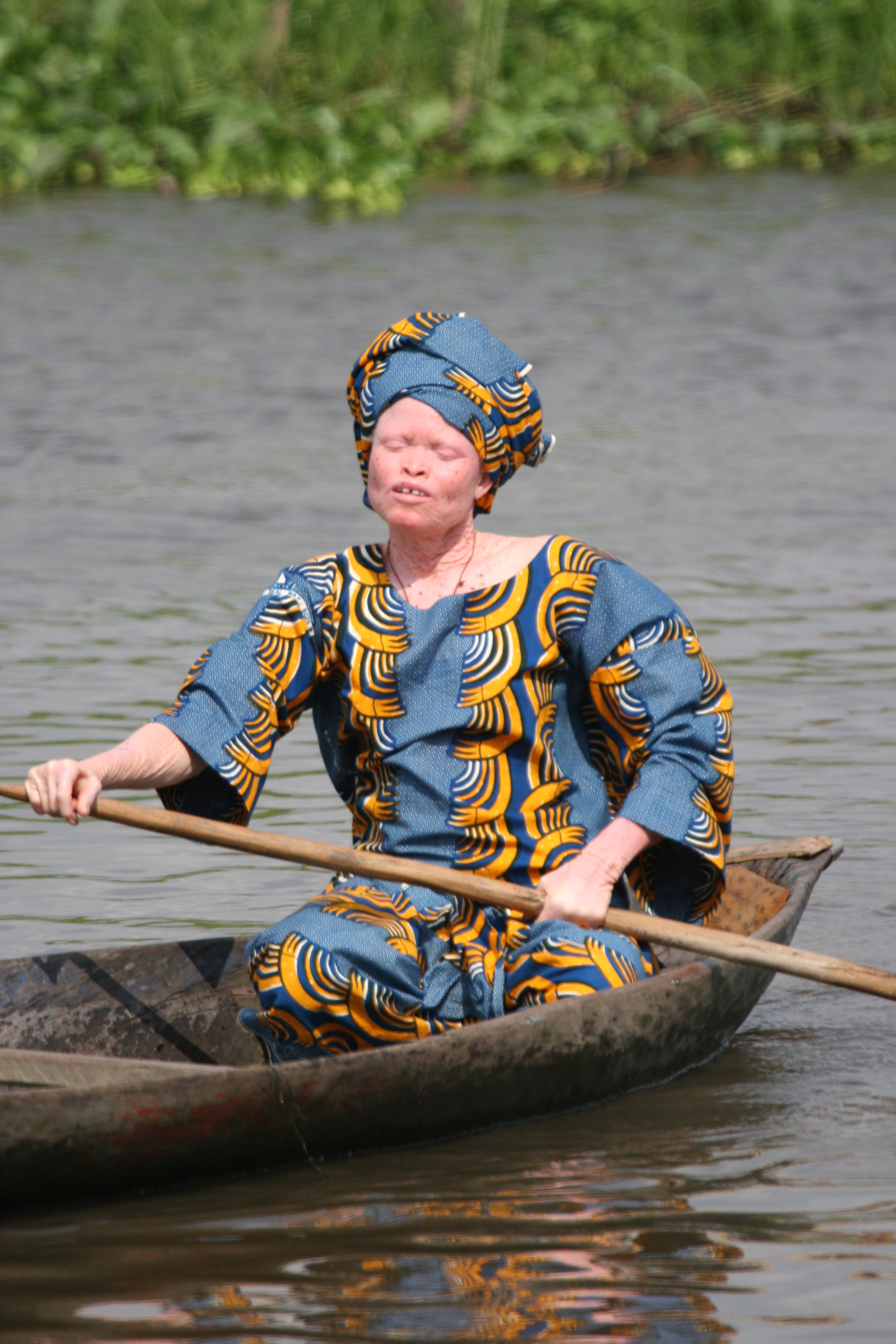 An albinistic woman in a canoe, Benin, Africa.